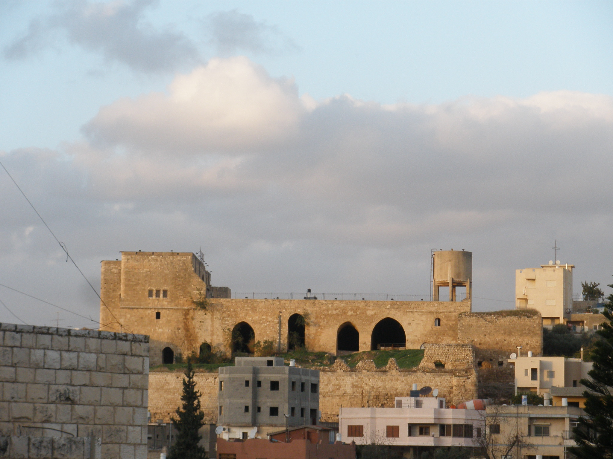 Archeological sites of Israel